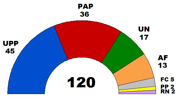 Distribution of seats in Peru's Congress for 2006-11, according to election figures from [1].